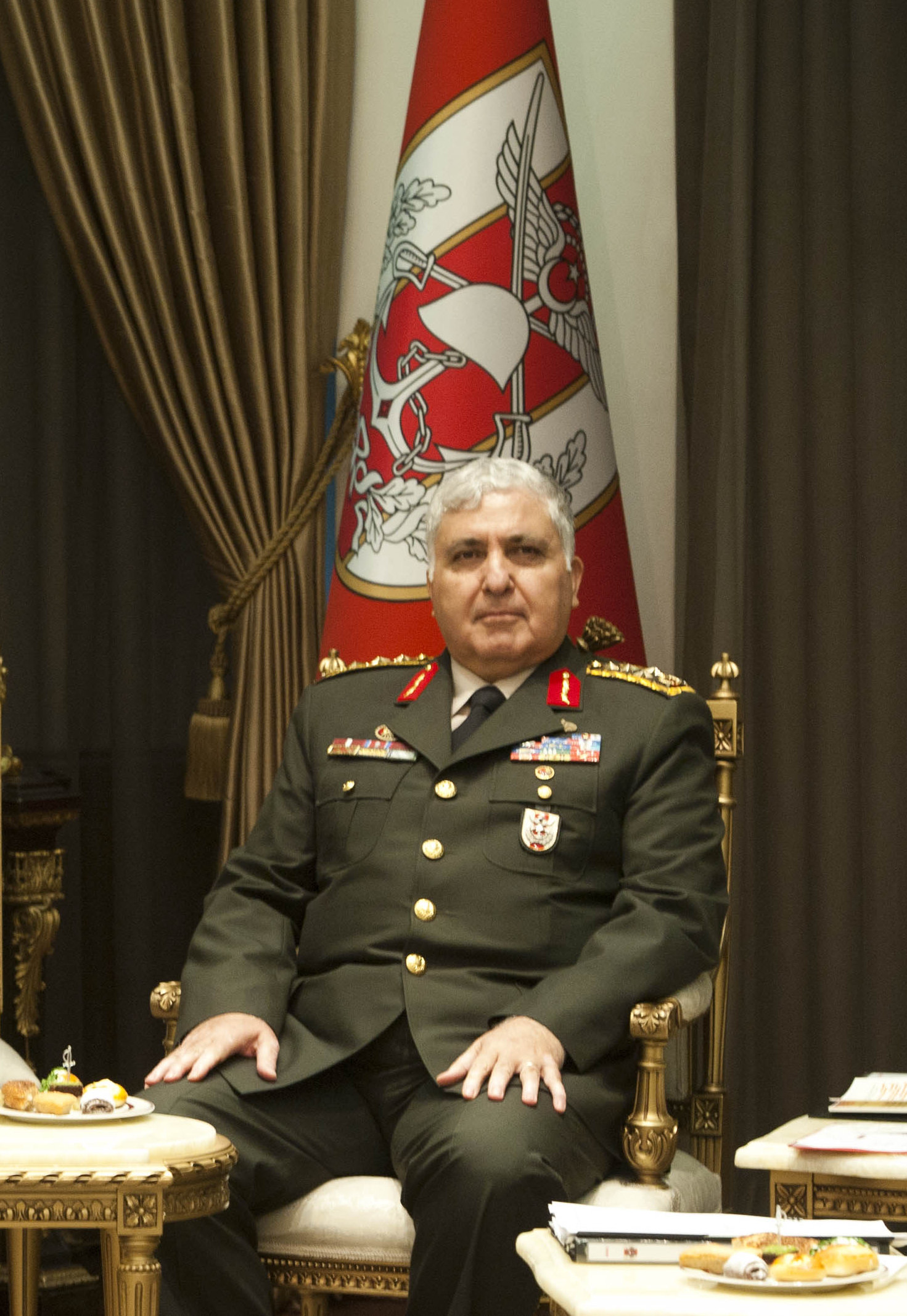 Necdet Özel, Army General, 28. Chief of the Turkish General Staff.